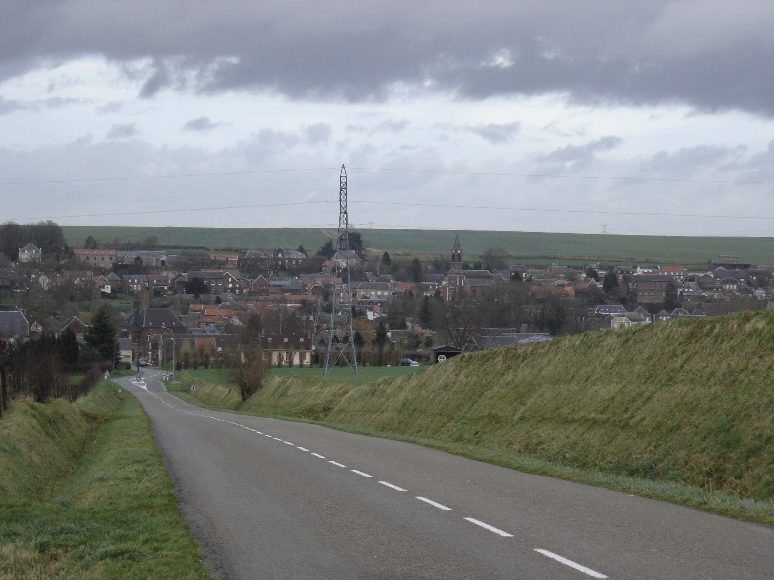 Neuvilly, overall view of the village